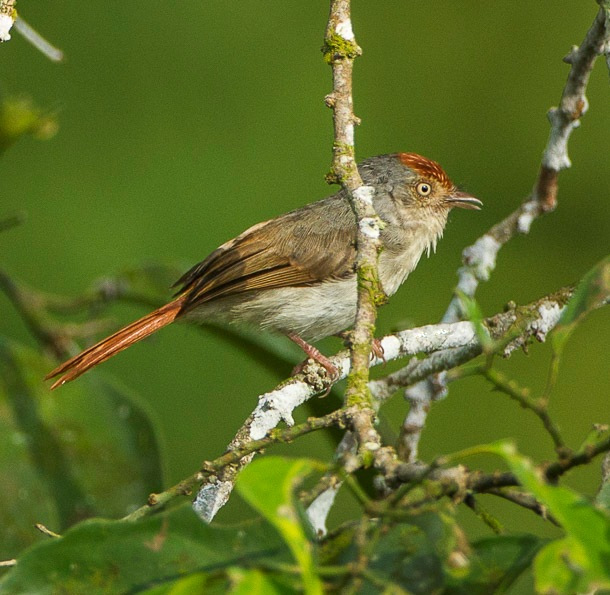 A Chestnut-capped Flycatcher (Erythrocercus mccallii) in the Kakum National Park, Ghana